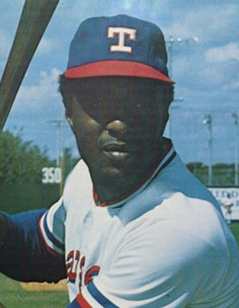 Professional baseball player Alex Johnson